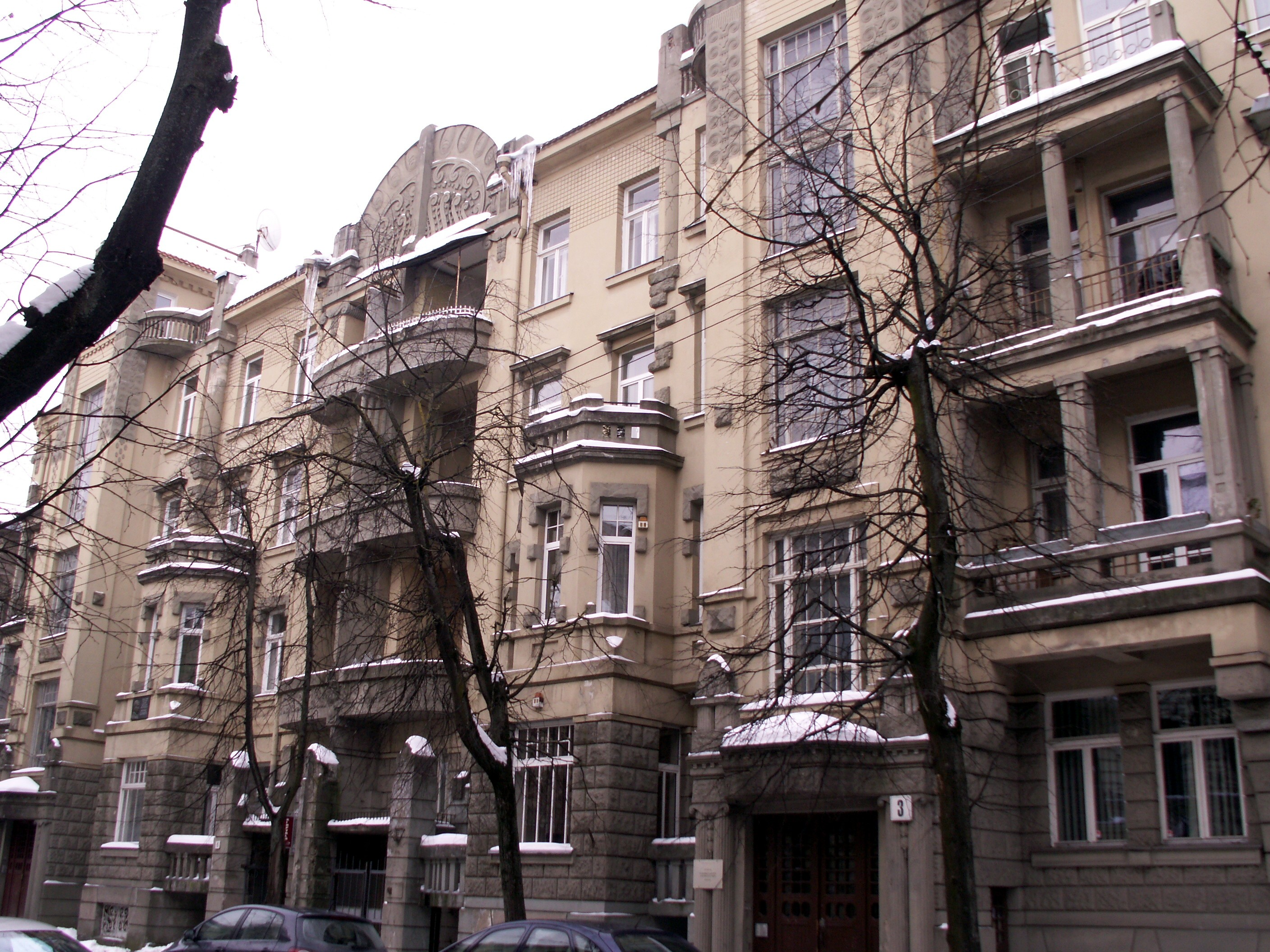 Kaštonų Street 3 in Vilnius